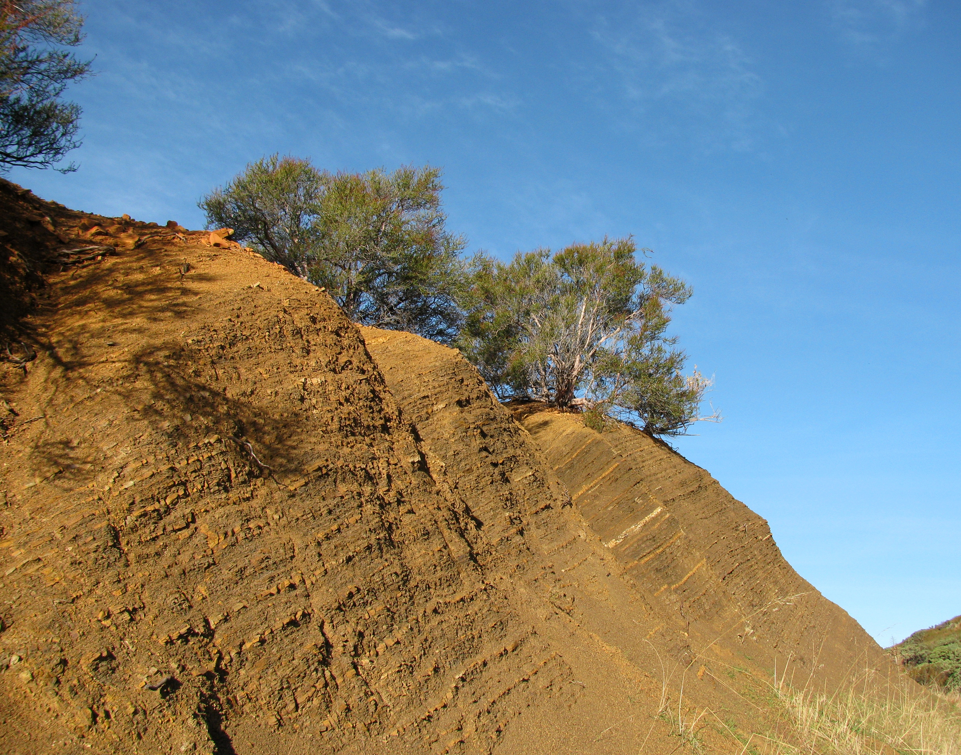 Juncal Shale (Juncal Formation); Santa Ynez Mountains, California, 12/11/2010, photo by self. GFDL/equiv.